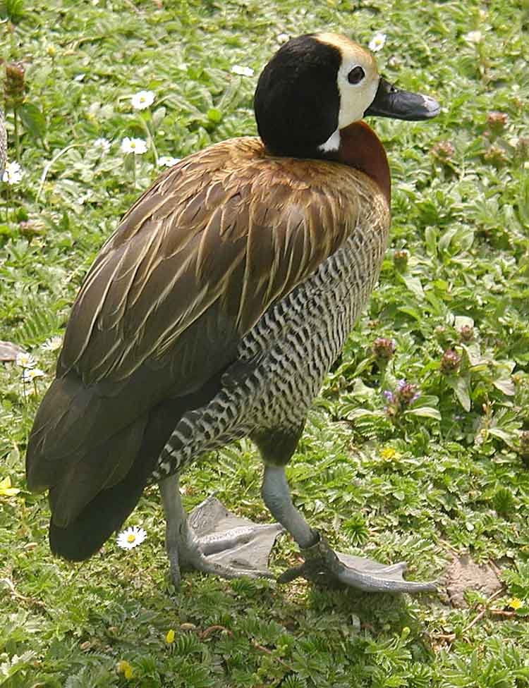 White-faced Whistling Duck at Slimbridge Wildfowl and Wetlands Centre, Gloucestershire, England.